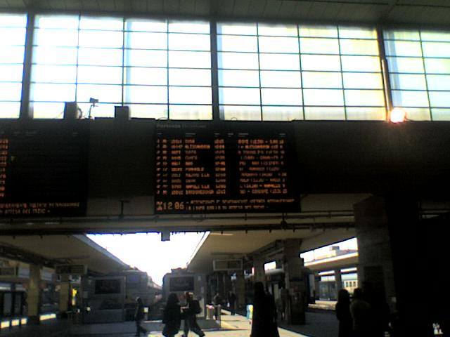 Departure timetable of Porta Nuova Railstation in Turin